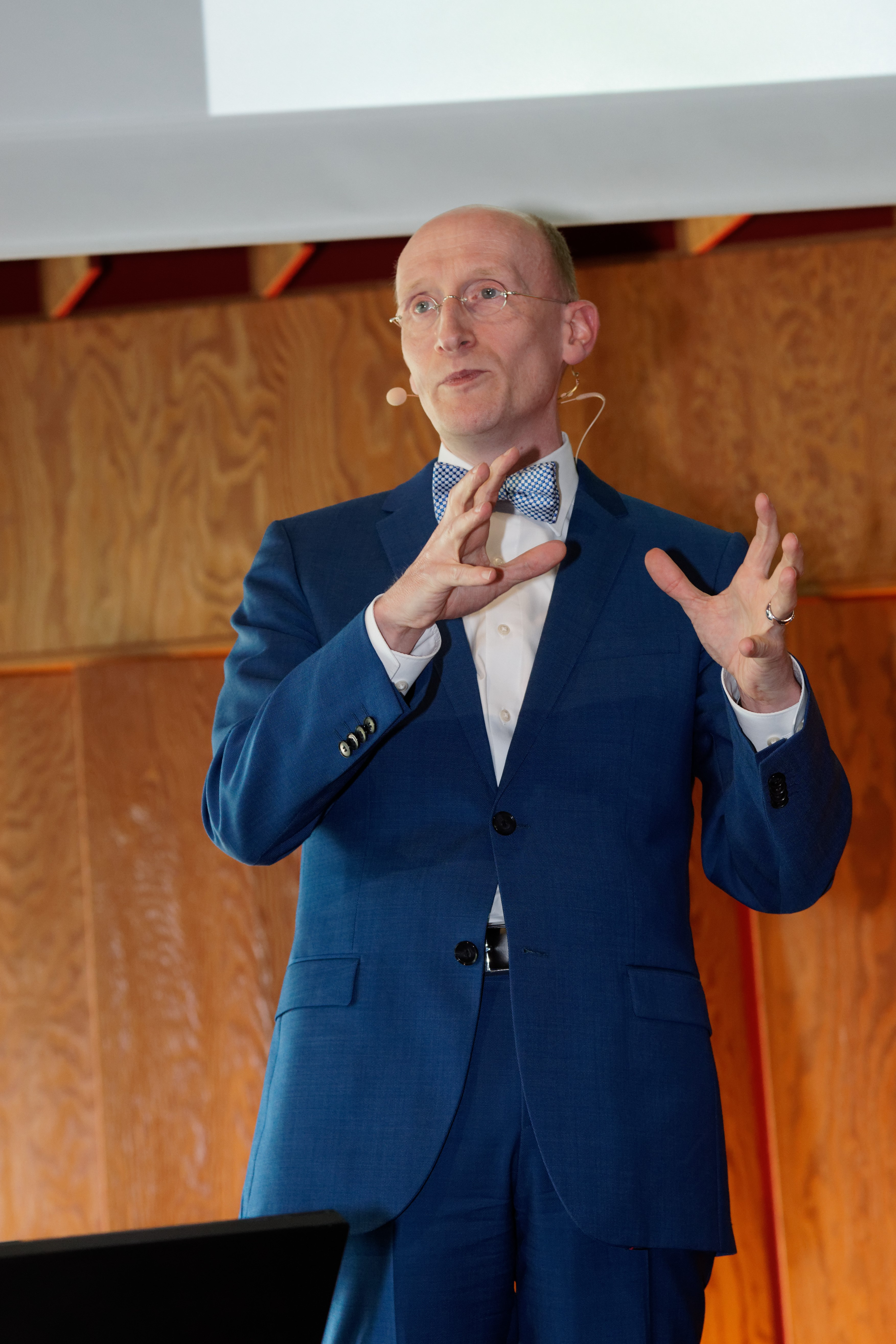 Psychologist Uwe Kanning explaining details of his presentation at SkepKon 2018.